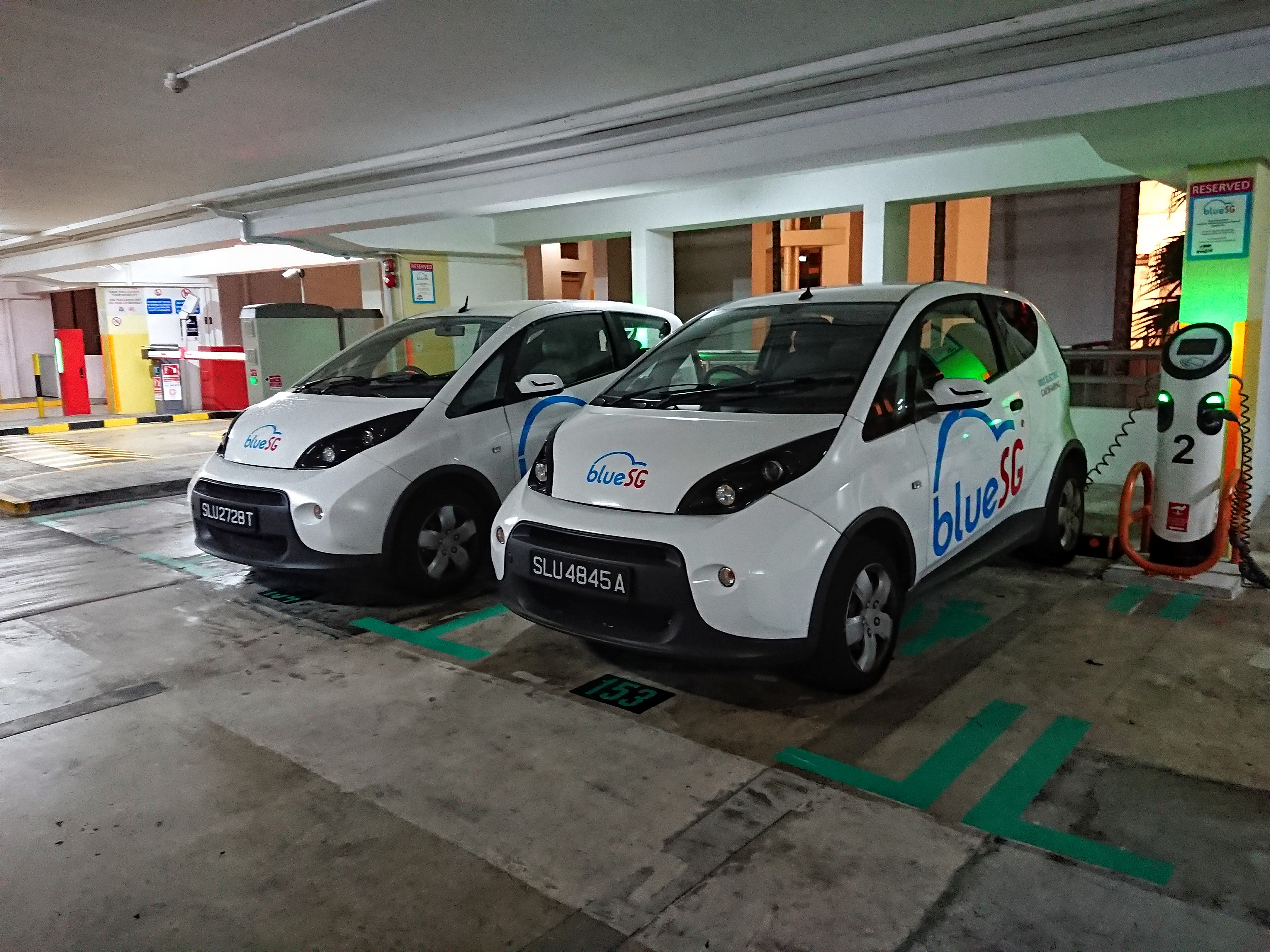 BlueSG cars parked at a charging station in Punggol.